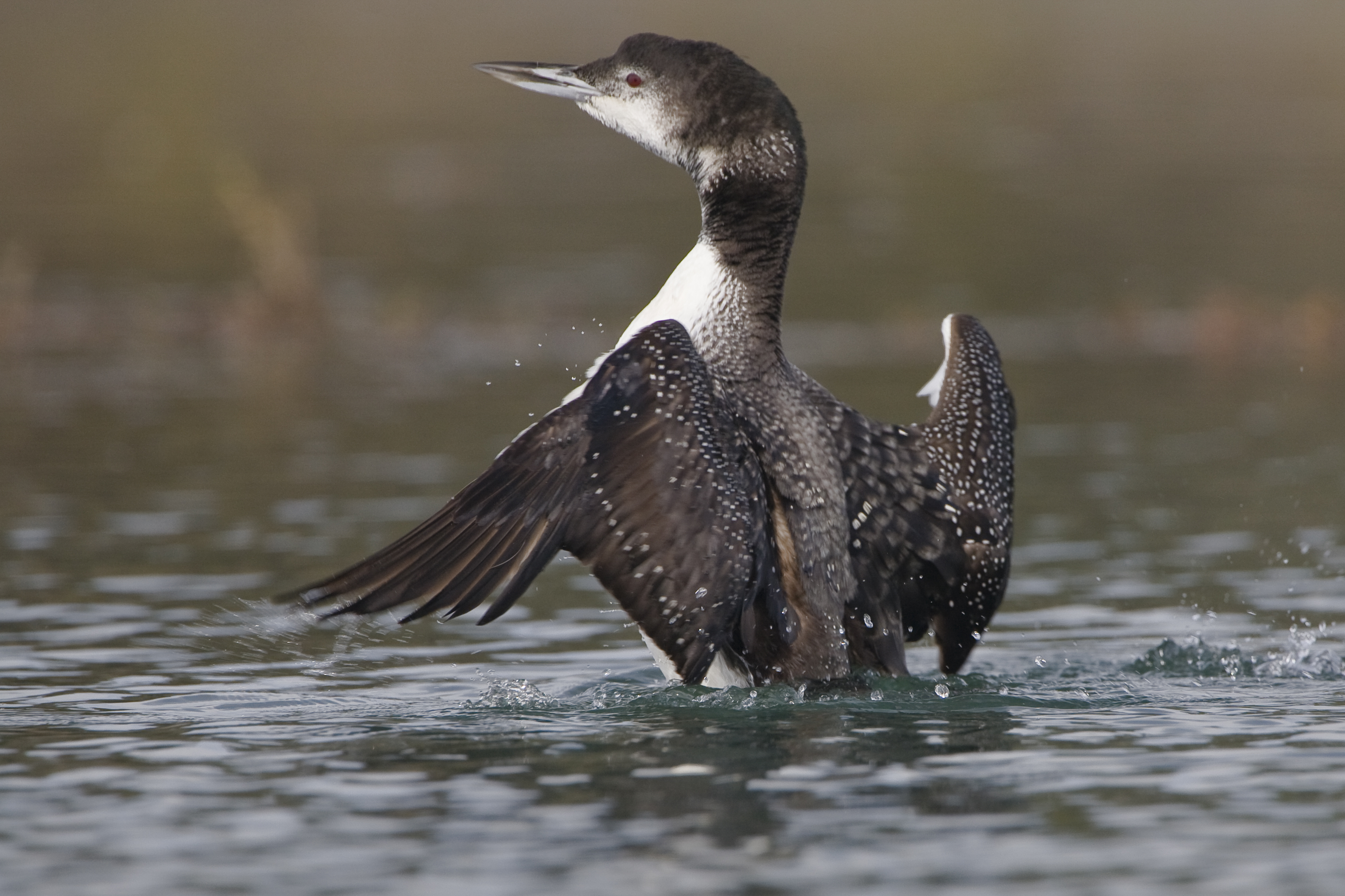 Common Loon (Gavia immer) in the Morro Bay, CA Estuary mudflats, Morro Bay, CA during an historic 6+ high tide in Morro Bay, CA 25nov2007 Sun. 25 Nov. 2007 - Photo by Mike Baird, Canon 5D with 300mm f/2.8 IS lens w/ 2X II TE handheld from a kayak